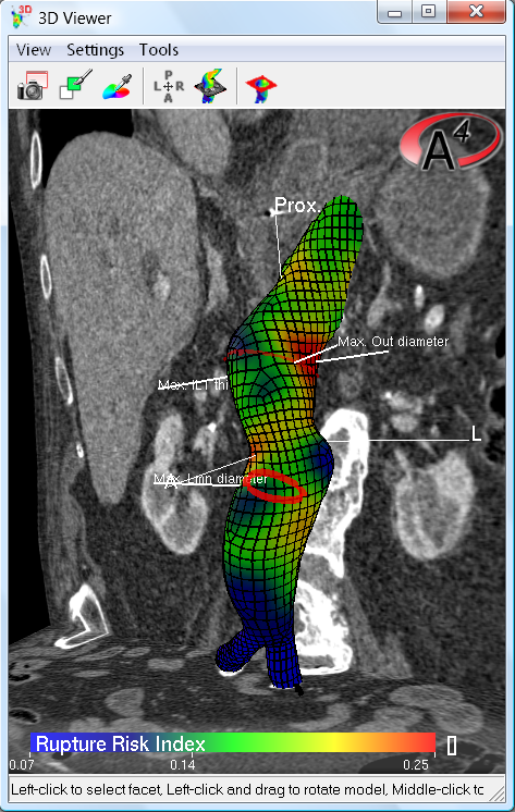 Color coded plot of the rupture risk index of the aneurysm wall. Red portions are closest to the limit load (strength) of the wall.